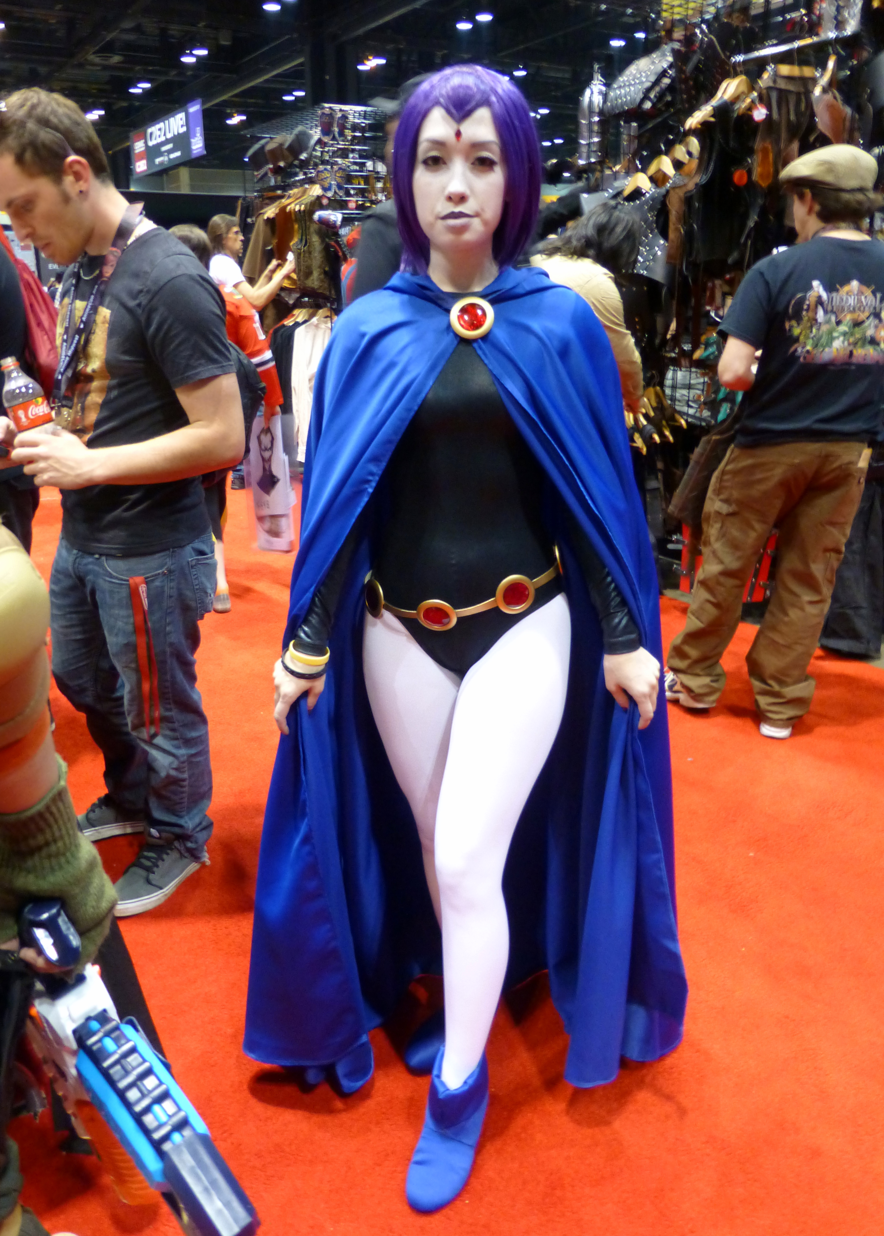 Raven Cosplay at Chicago Comic & Entertainment Expo (C2E2) 2014.